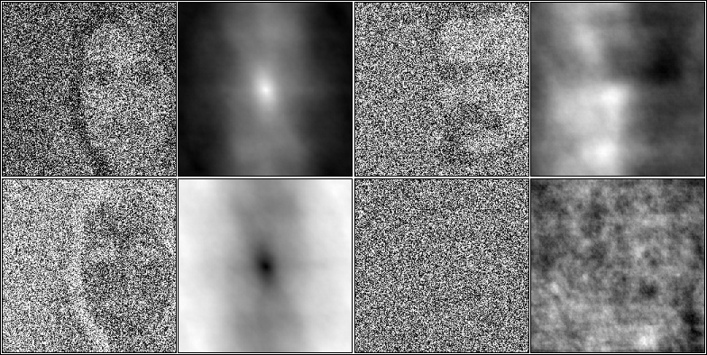 CDMA visualisation image:corr_inputrp.png: Input data, chirps. image:corr_outpurp.png: correlation with noisy chirp patterns image:corr_outpurandrp.png: Pseudorandom chirp. image:corr_multirp.png: mixed signal. Details see: cdma or contact benutzer:dantor Own work. Thanks to Scion for their great software.